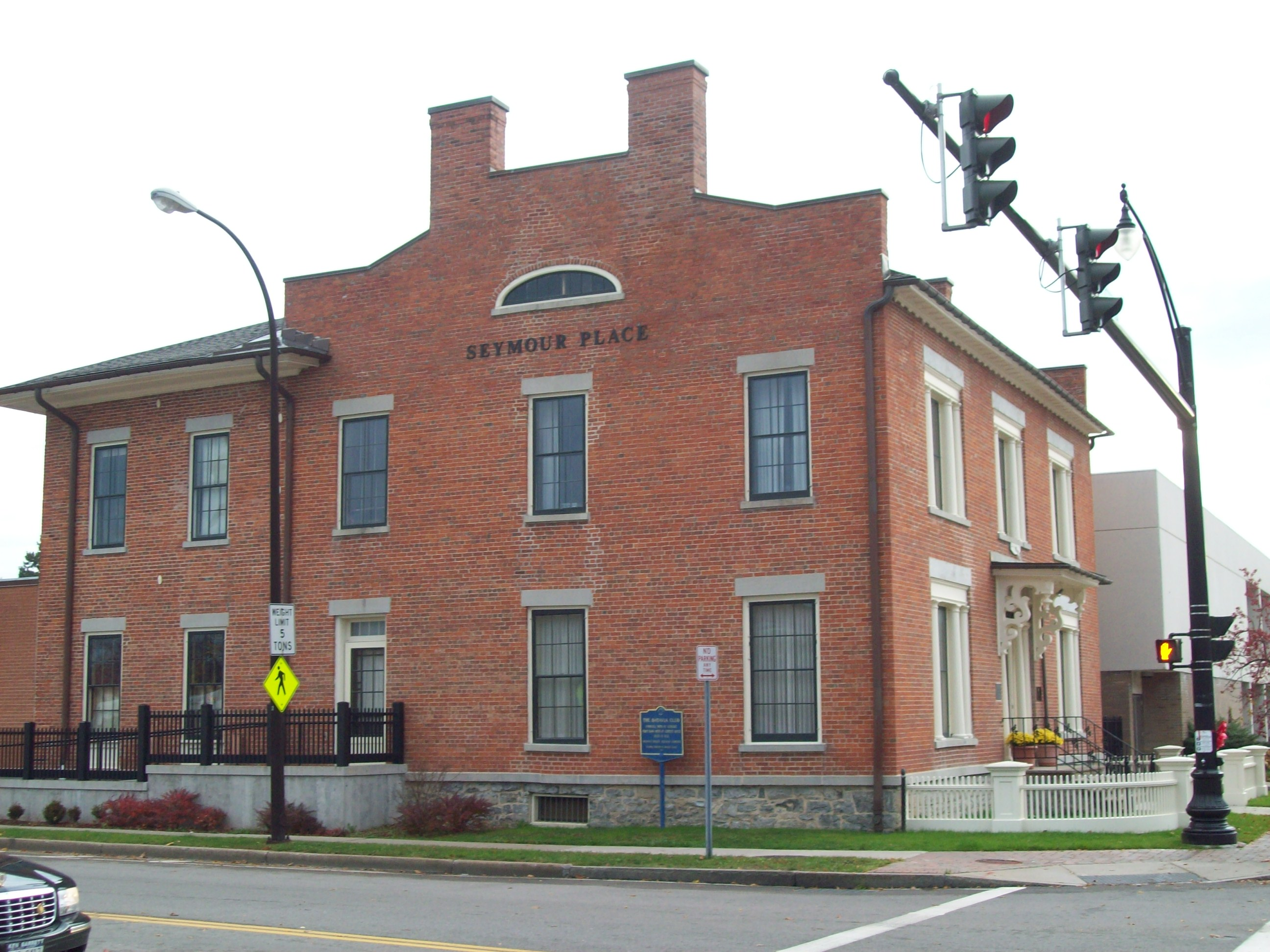 Batavia Club, October 2009